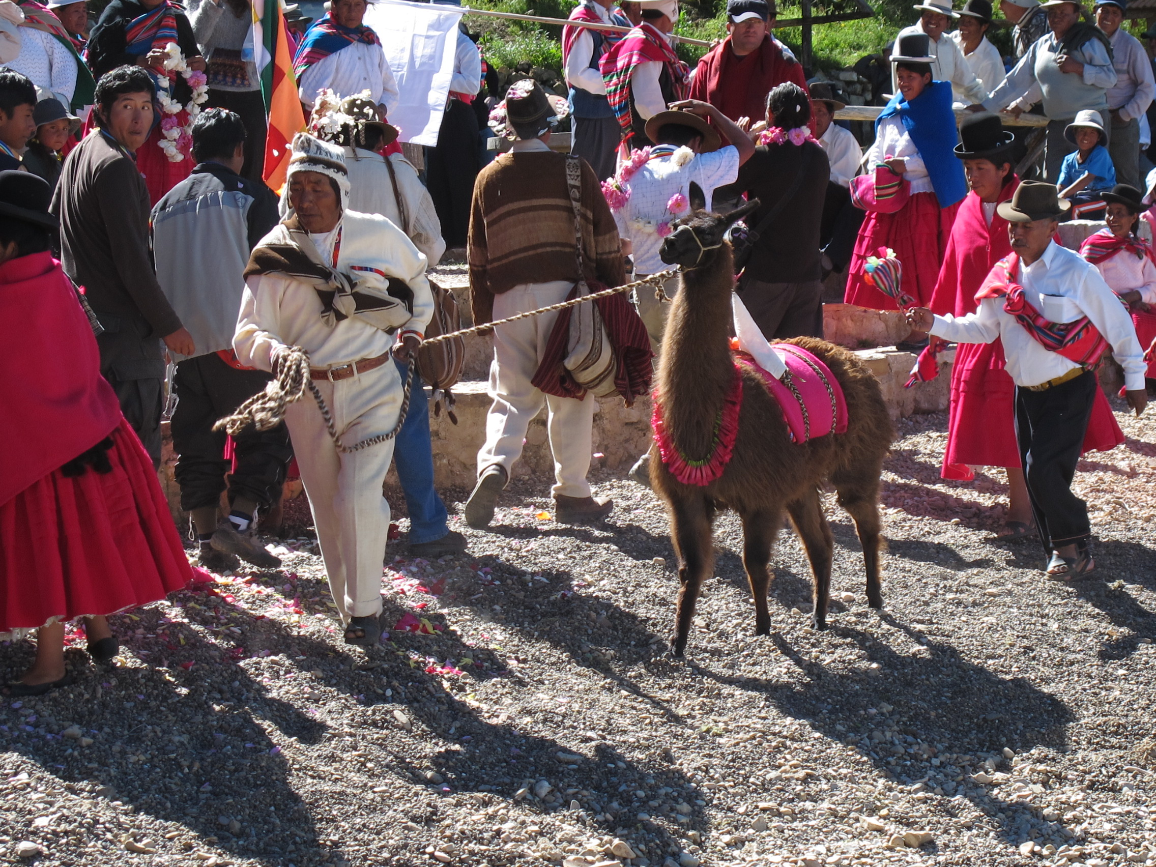 Photos of a traditional Aymara ceremony in Copacabana, on the border of Lake Titicaca in Bolivia.